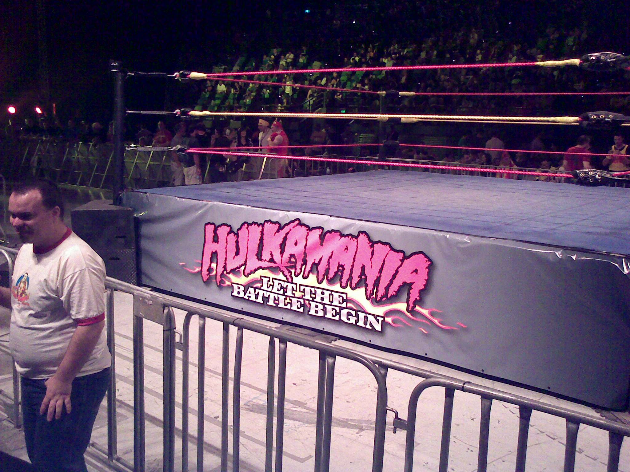 This is a bettter shot. I held the phone up higher.